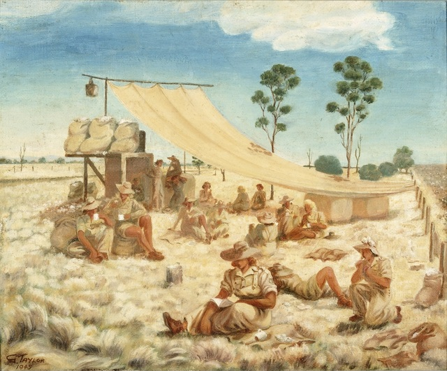 Sourced from the Australian War Memorial collection database ID#: Titled:Smoko time with the AWLA Created in:1945 Caption:Group of women from the Australian Women's Land Army smoking at tea break, seated on dry grass out in the country in the height of summer. Tent, trees and clouds in background.